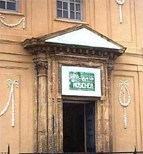 Mosque housed in a former synagogue in Palermo.